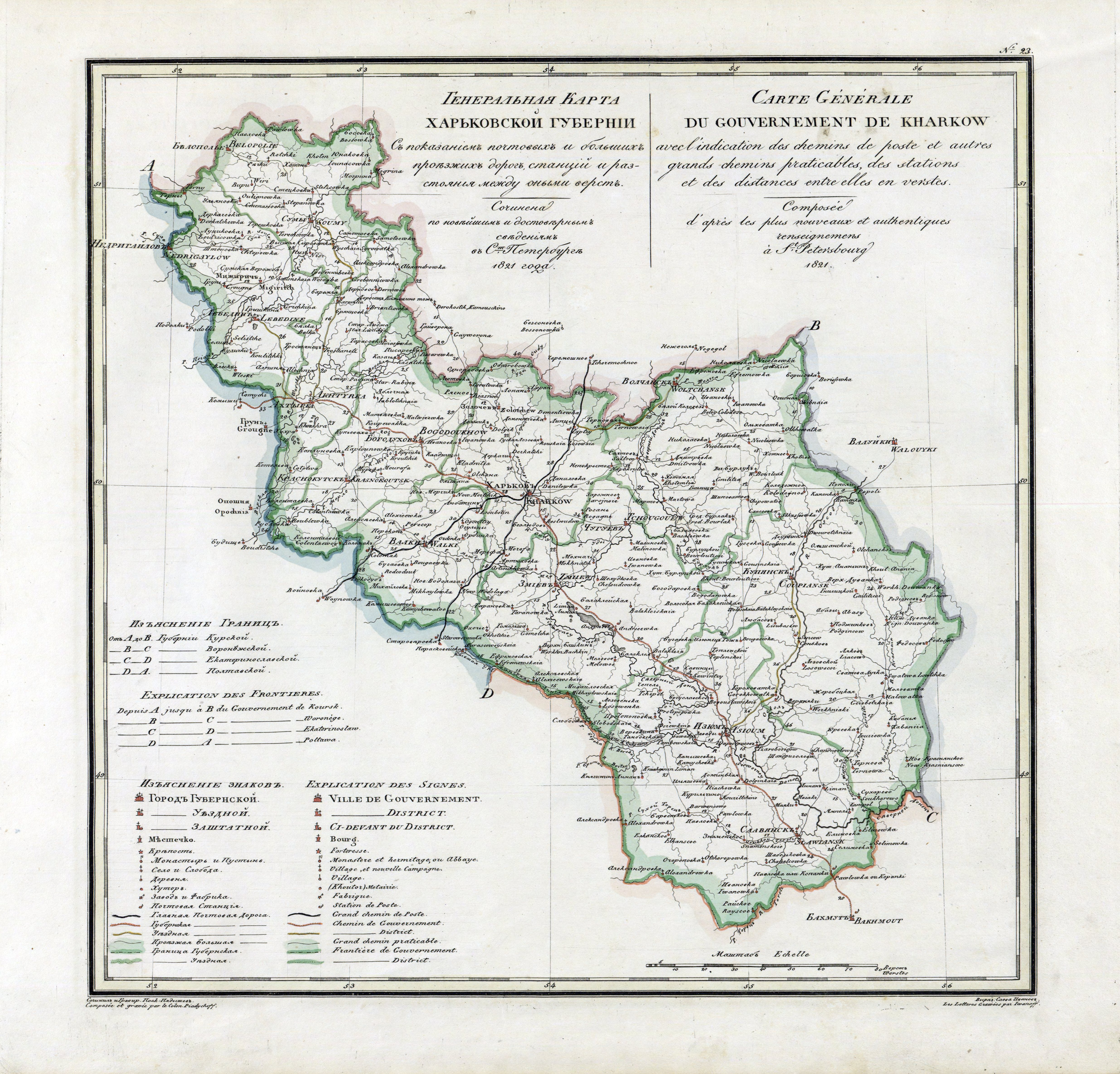 Kharkov governorate